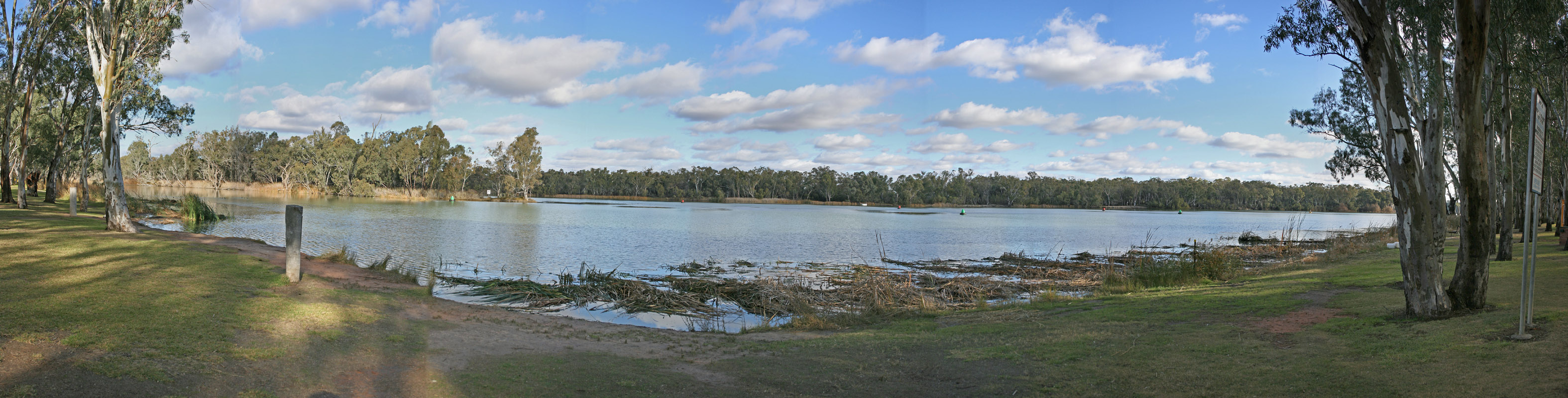 The confluence of the Darling and Murray Rivers, Australia's largest river system, at Wentworth, NSW. Taken from the western shore of the Darling and the northern shore of the Murray, looking across to Victoria. The Darling River is flowing in from the left of shot, the Murray River is the main body of water, flowing out to the right of shot.